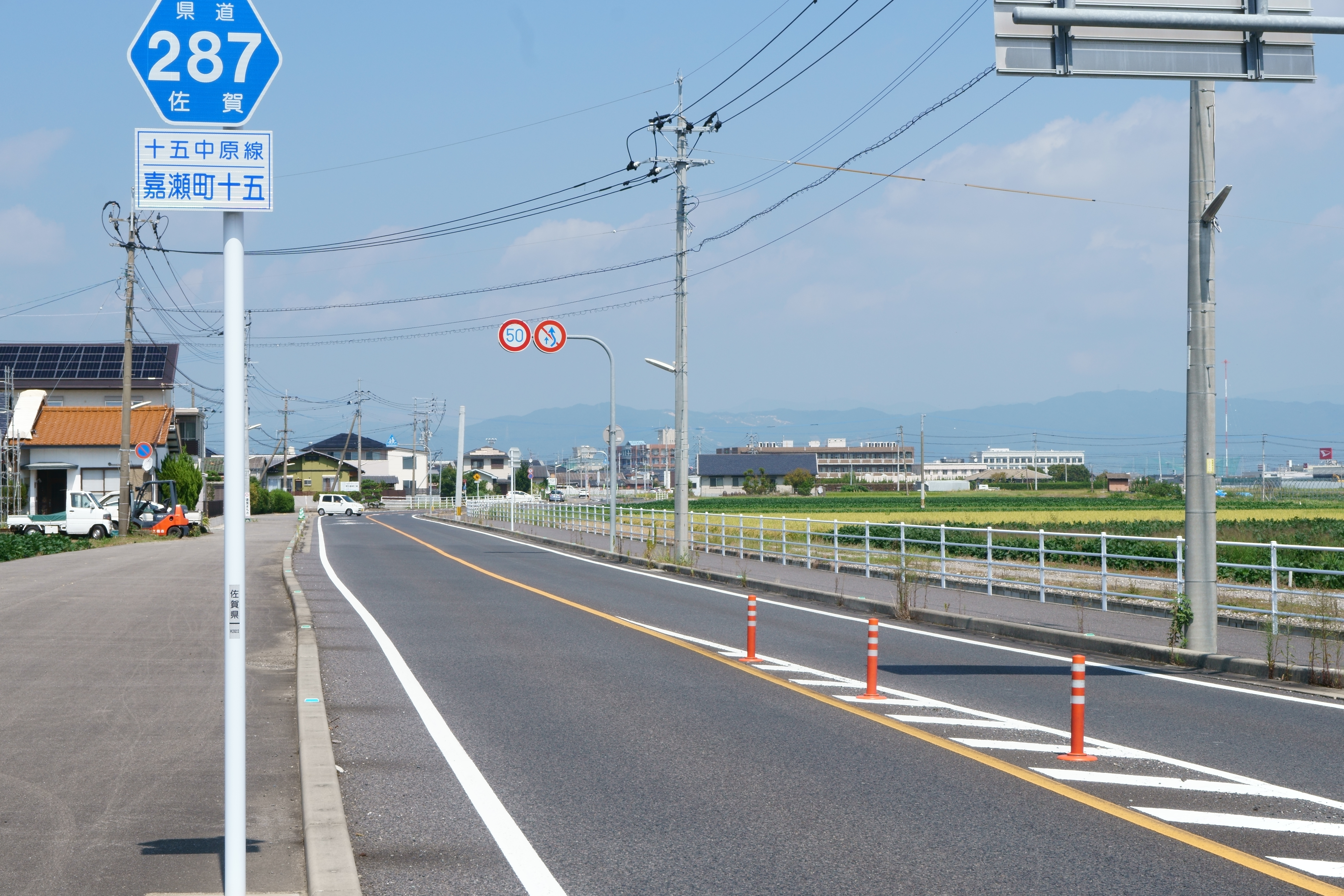 Saga Prefectural Road No.287 in Kase-machi Jūgo, Saga city.